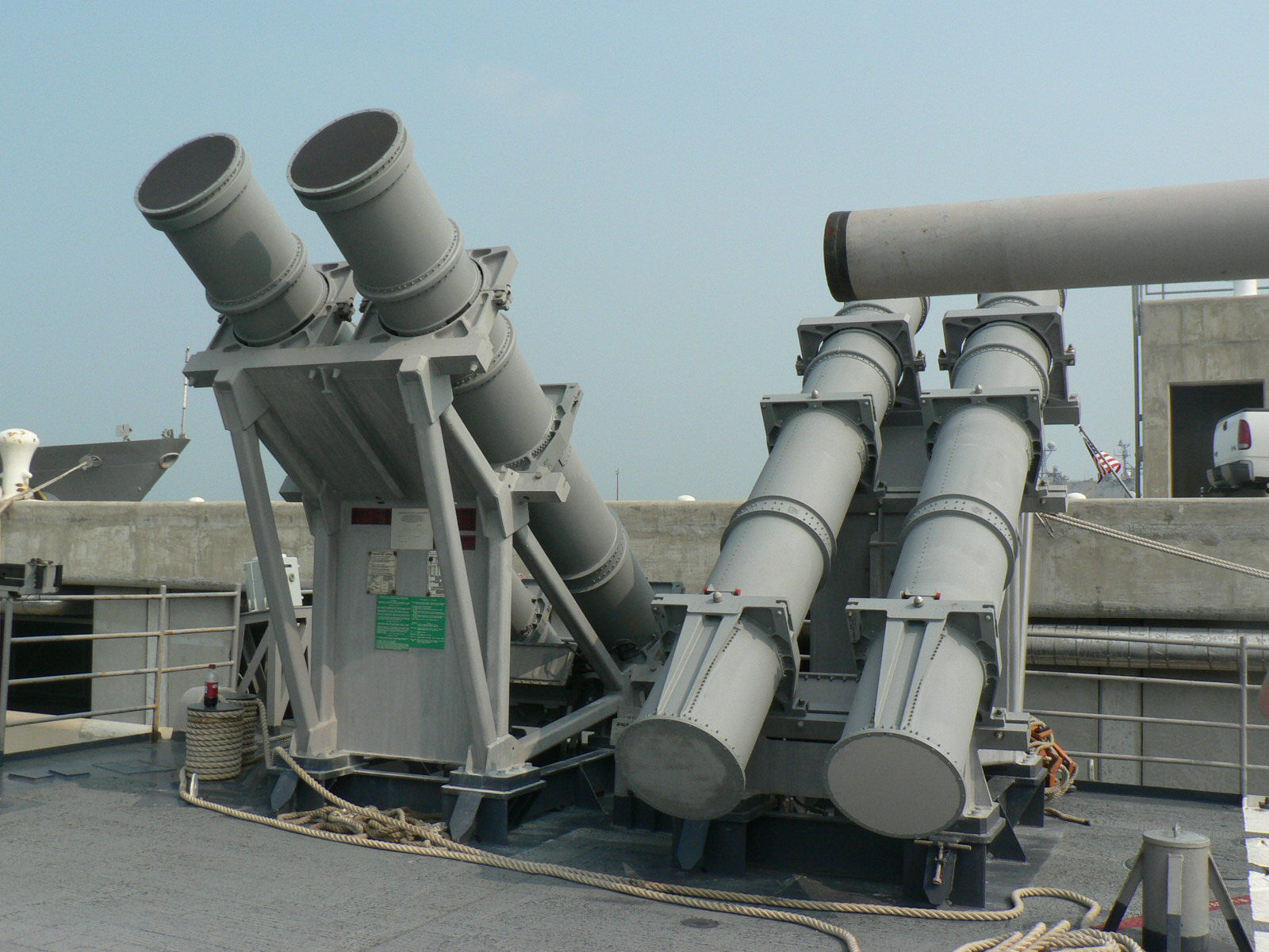 A sarter for harpoon missiles